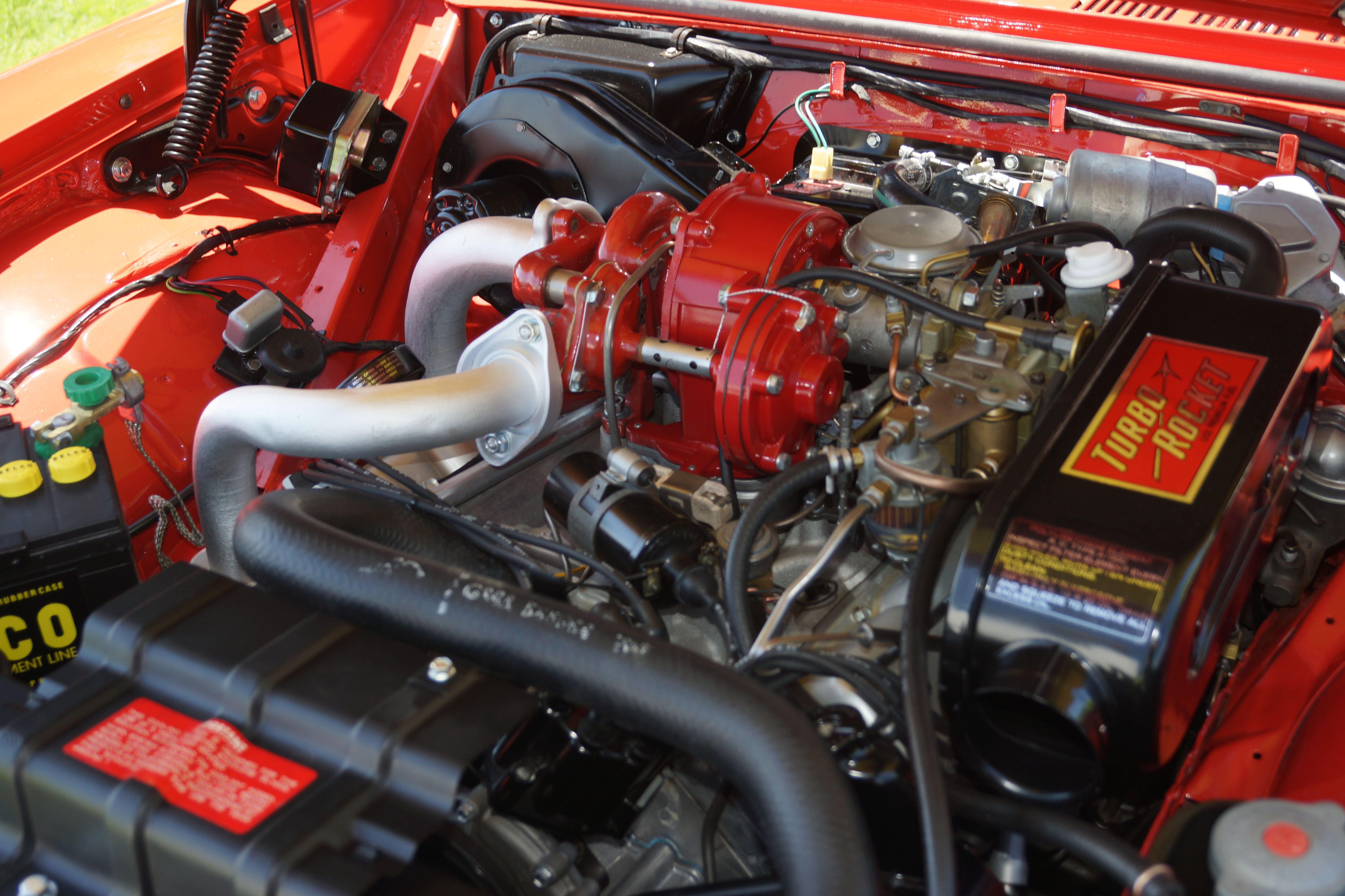 Oldsmobile Turbo-Rocket V8 in a 1962 Oldsmobile Jetfire, photographed at the 10,000 Lakes Concours d'Elegance 2016